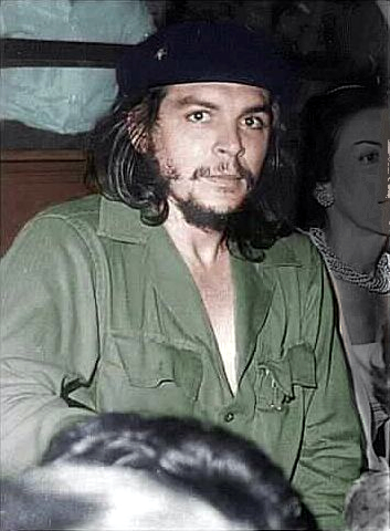 Che Guevara in his trademark olive-green military fatigues, June 2, 1959 Cuba.